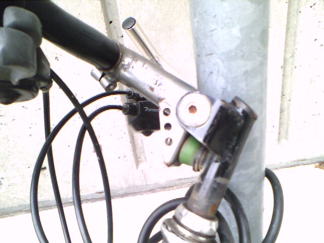 Suspension bicycle stem take